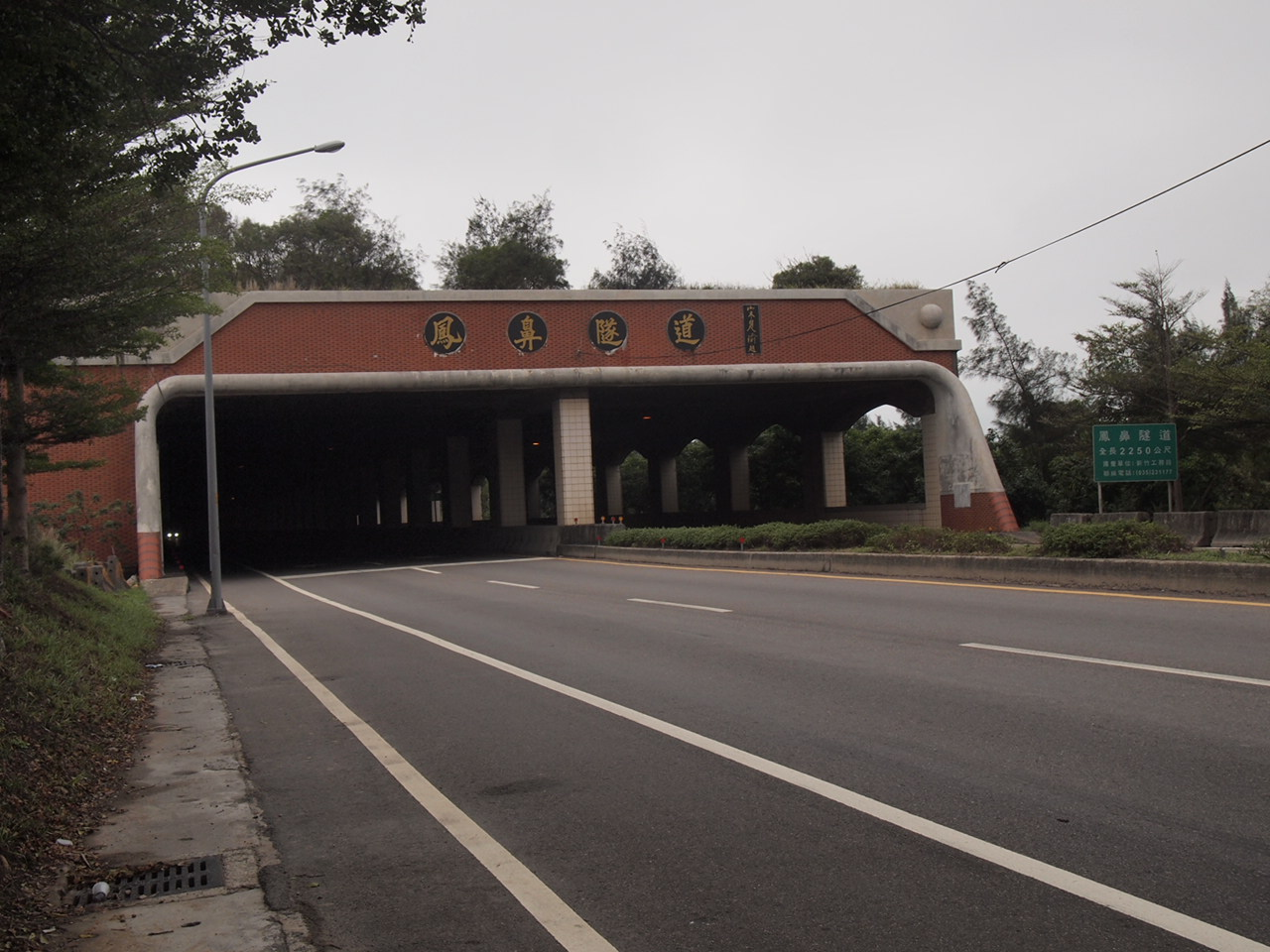 Fongbi Tunnel